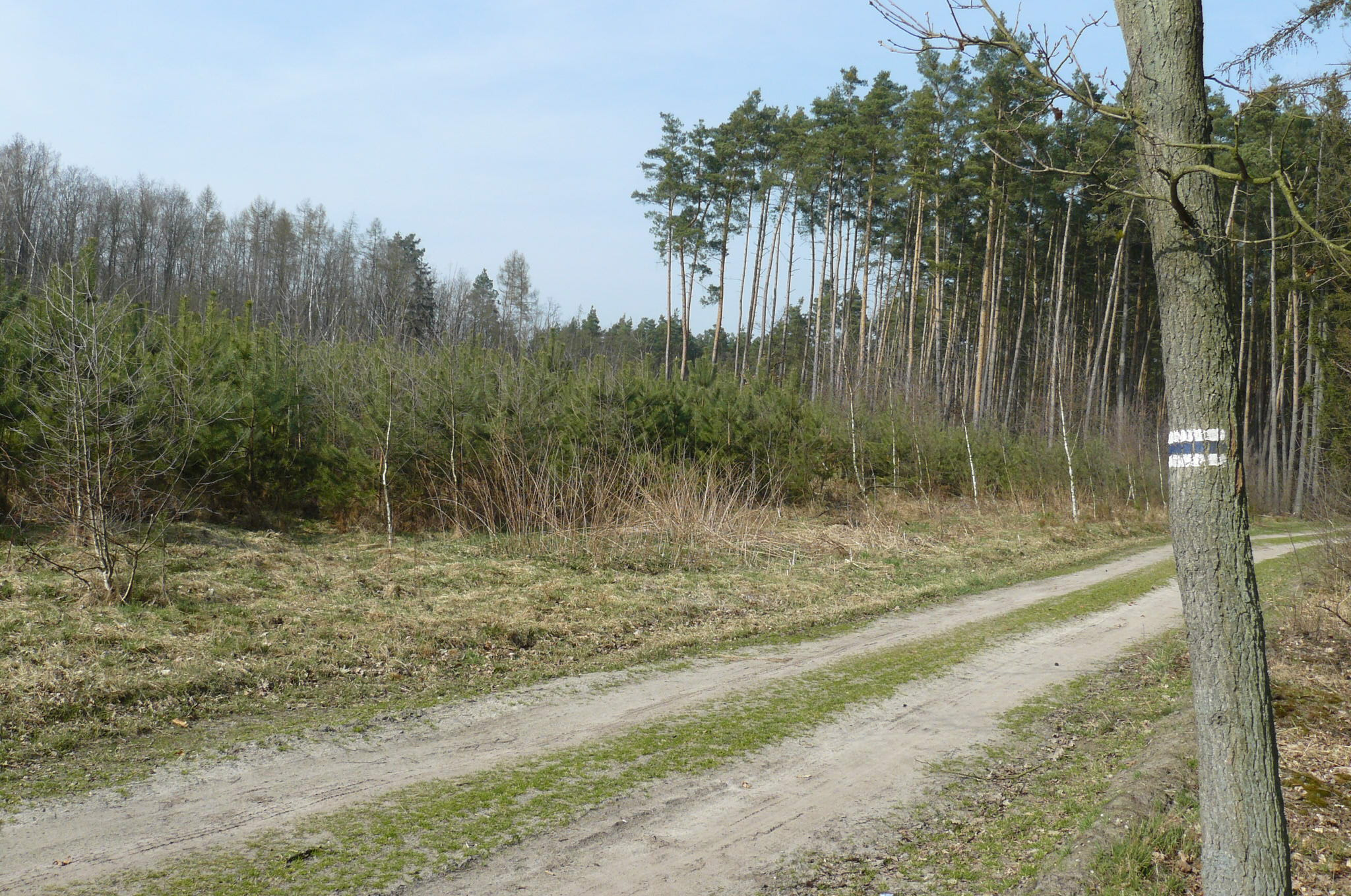 Lisie Dziury Valley.